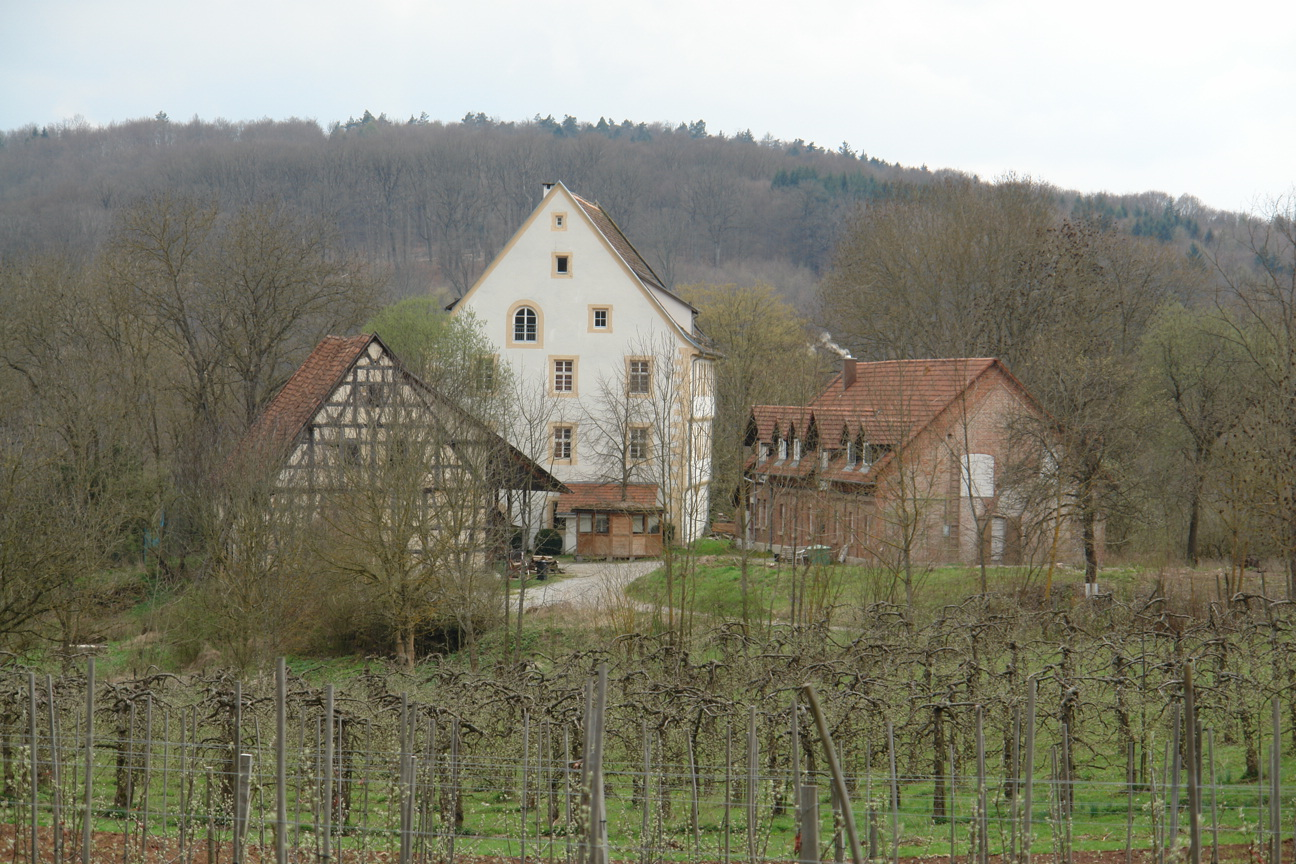 Bläsiberg near Tübingen